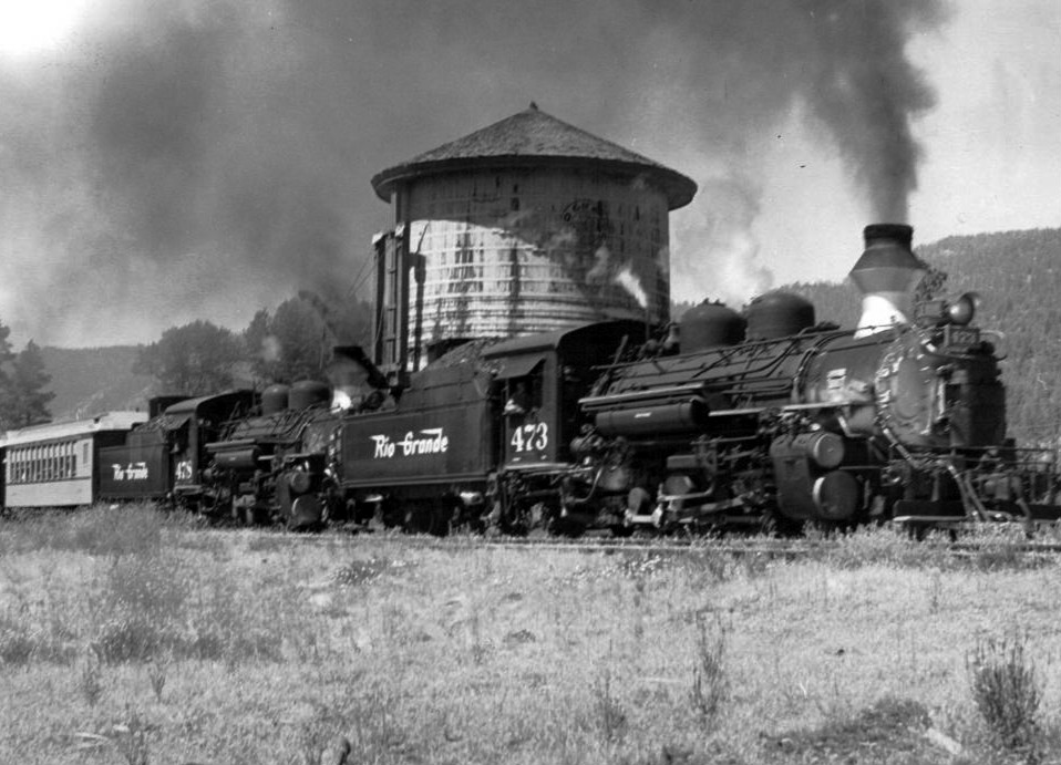 Photo of a Denver and Rio Grande excursion train at Hermosa in 1963, led by locomotives 473 and 478.